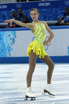 American figure skater Polina Edmunds at the 2014 Winter Olympics.